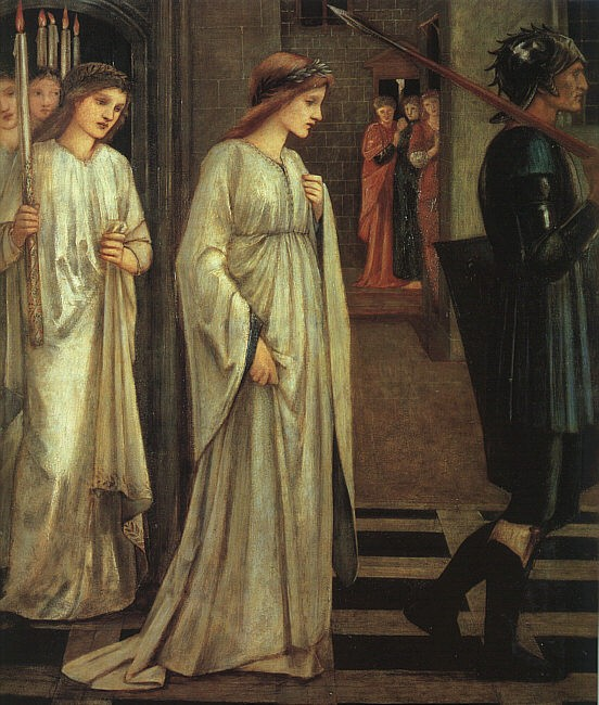 Sir Edward Burne-Jones (British, 1833-1898) painting with Julia Stephen as the model, Private Collection